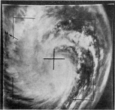 Satellite image of a powerful cyclone over the Northern Indian Ocean on December 21, 1964